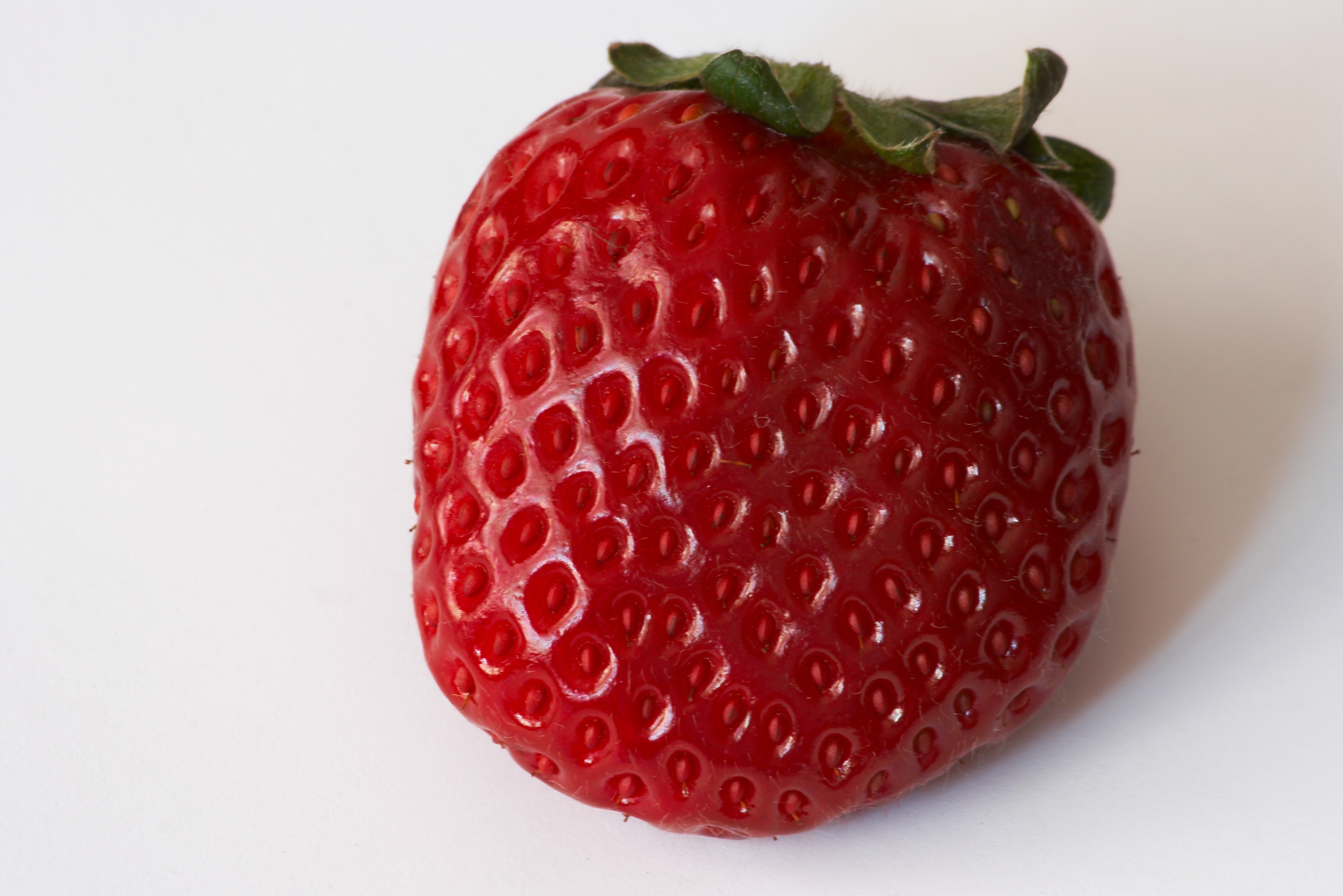 Strawberry. (Cadiz, Spain)